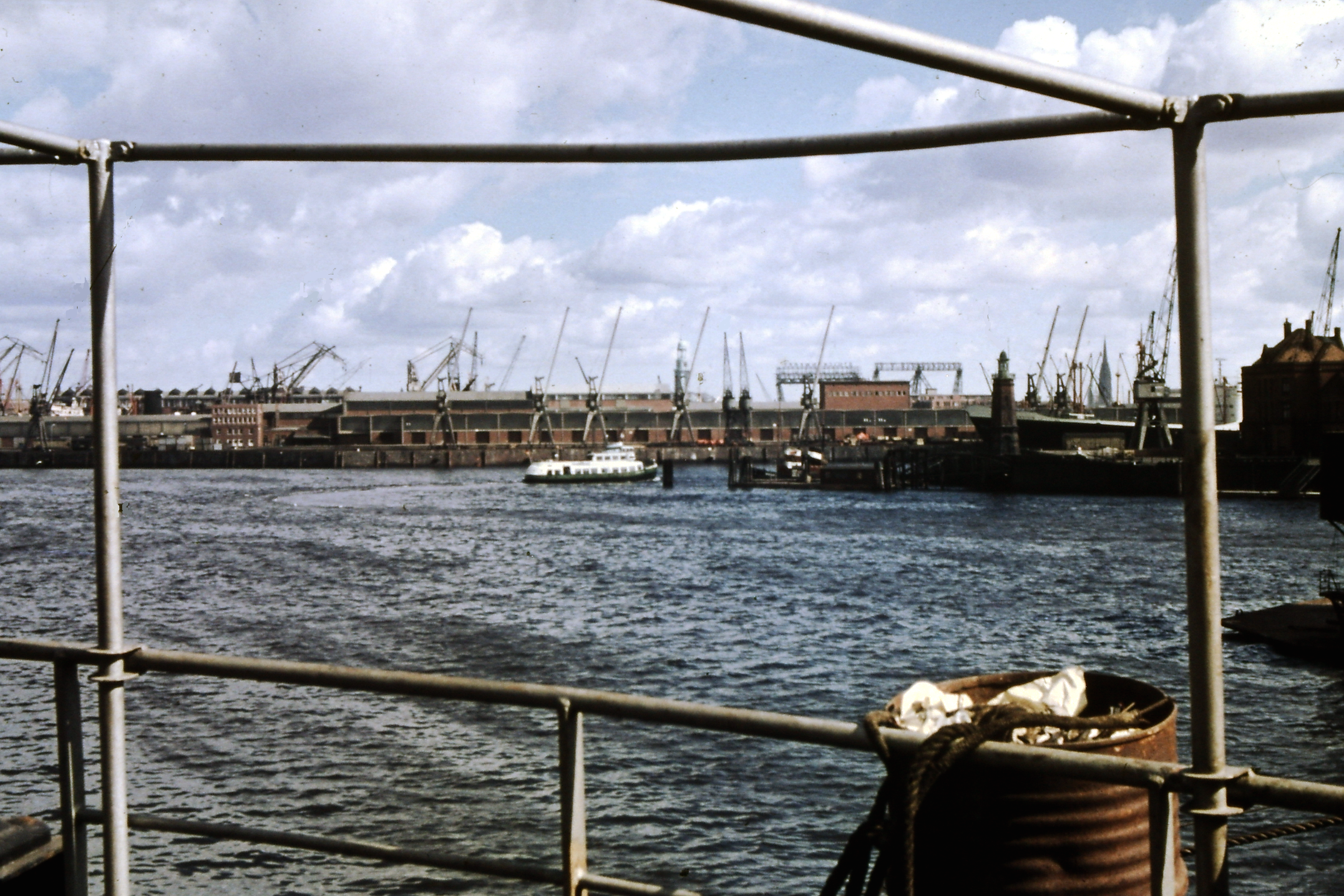 Howaldtswerke Hamburg Steinwerder, see the Kaiser Wilhelm harbor towards St Michael's Church, in April 1957